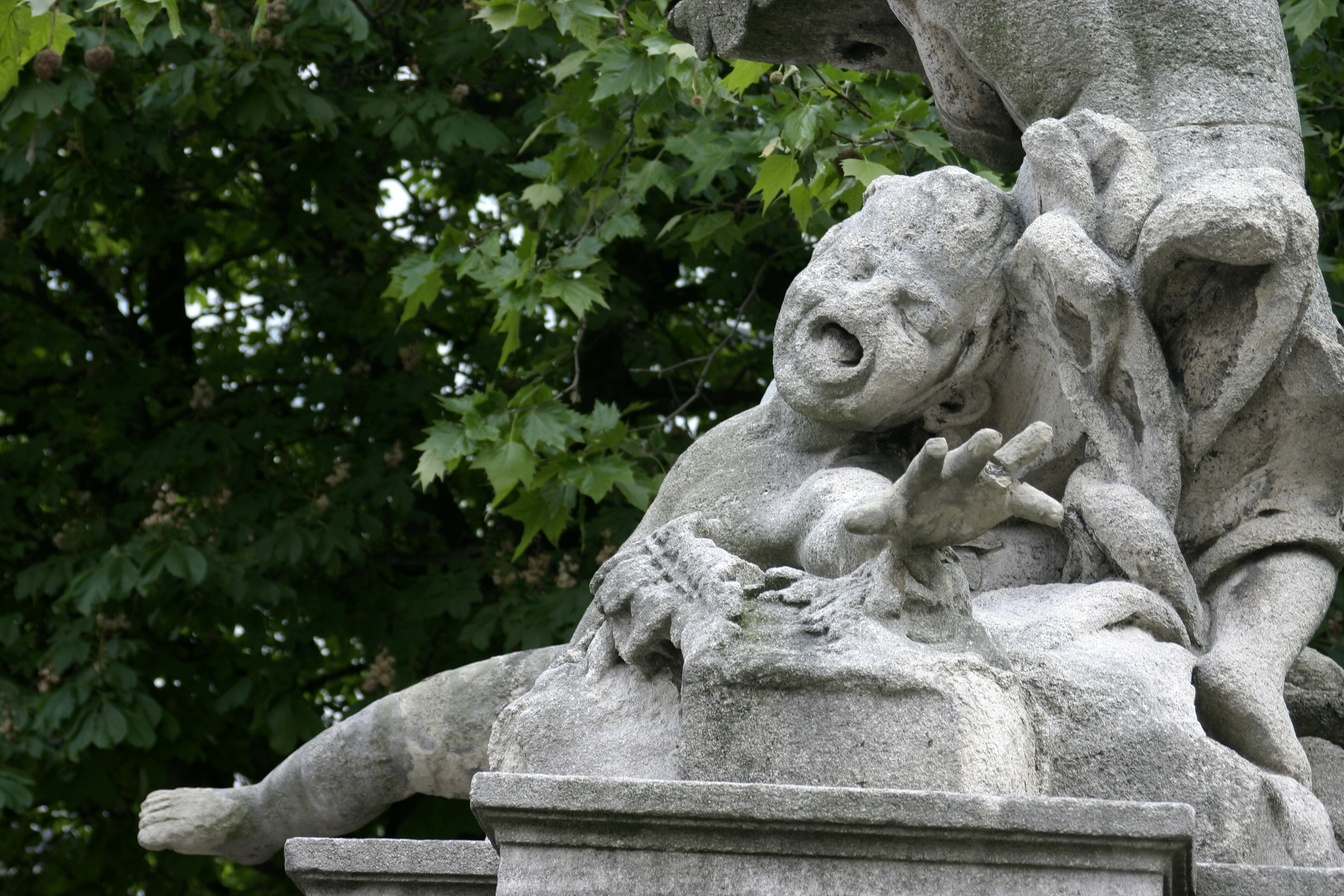 Acid rain results on monuments